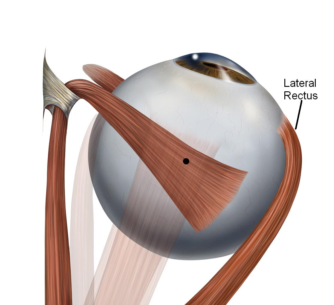 Image of eye muscles with LR text added for clarity